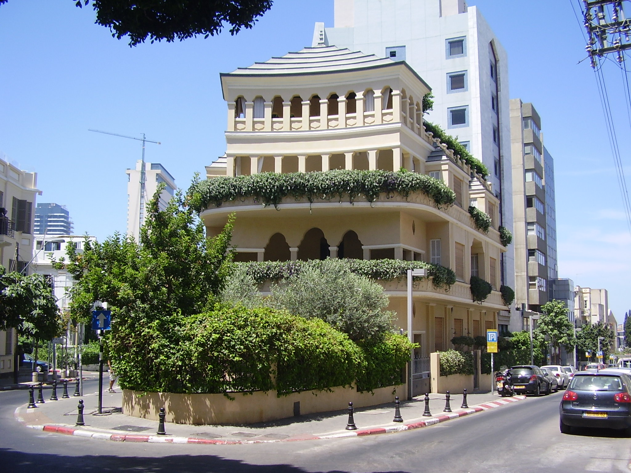 pagoda house in tel-aviv